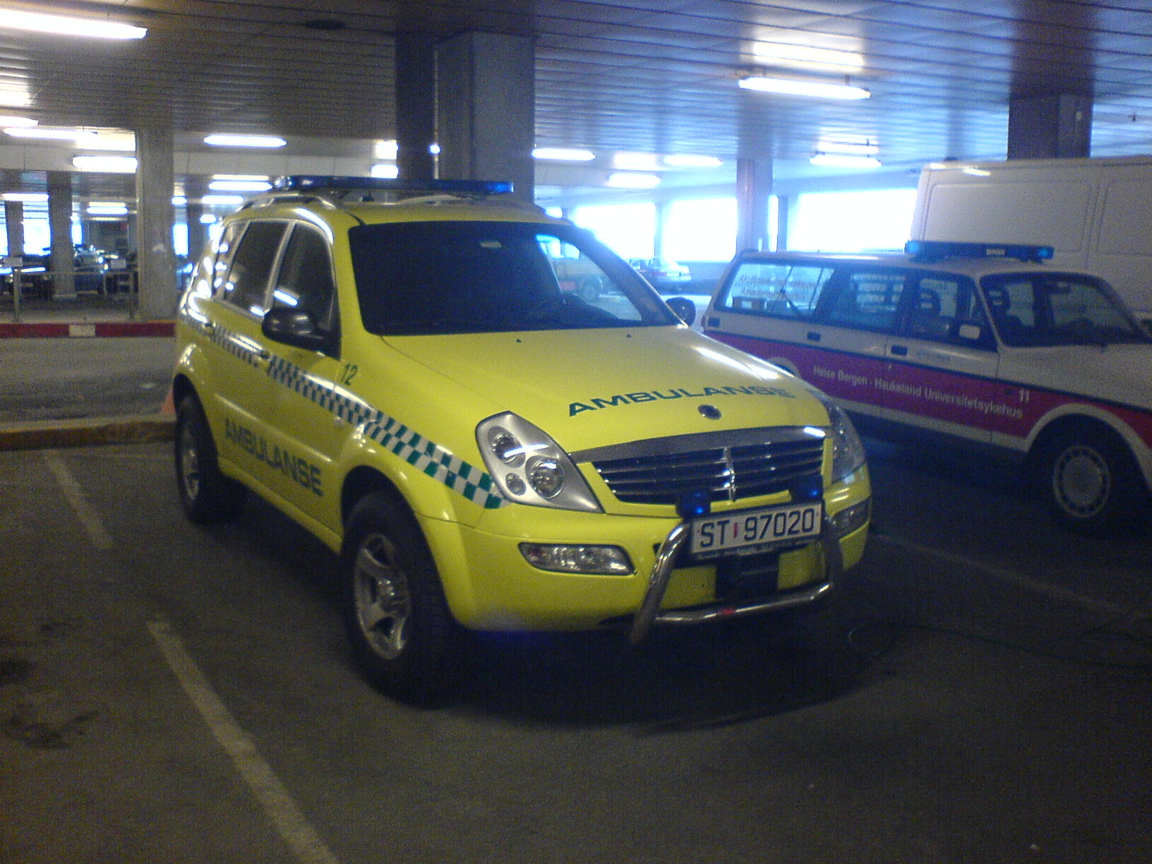 SsangYong Rexton prehospital ambulance (fly-car) in the garage at Haukeland Hospital, Bergen, Norway